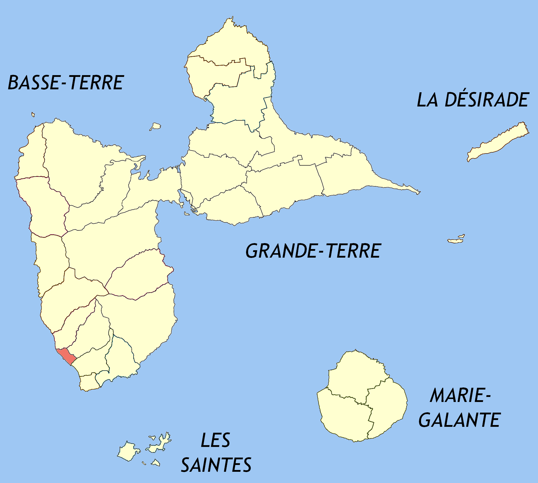 Created map myself.